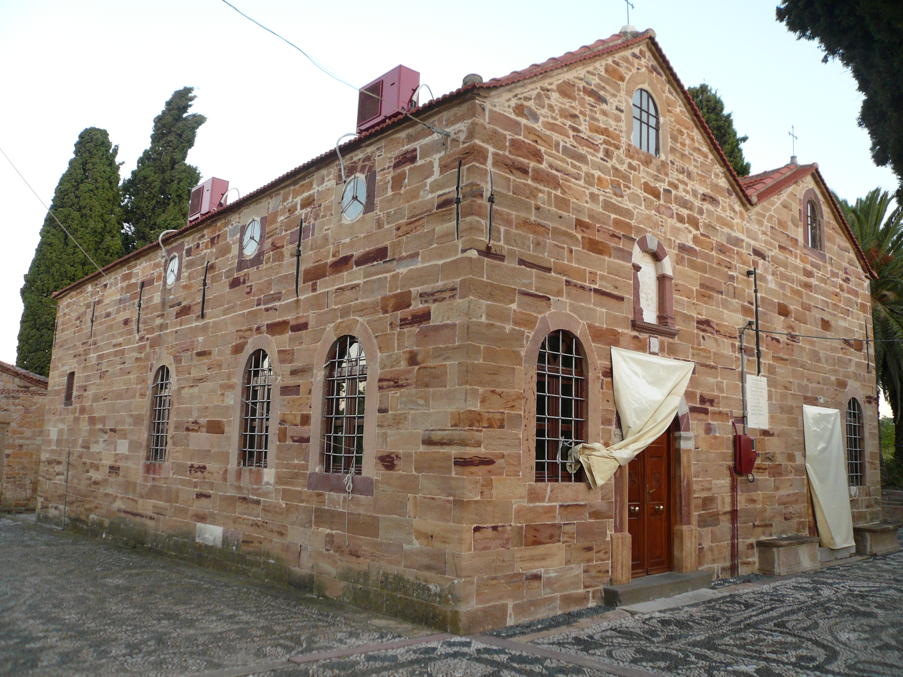 Campos of Chios - Panagia Kokorovilia«Κάμπος Χίου»